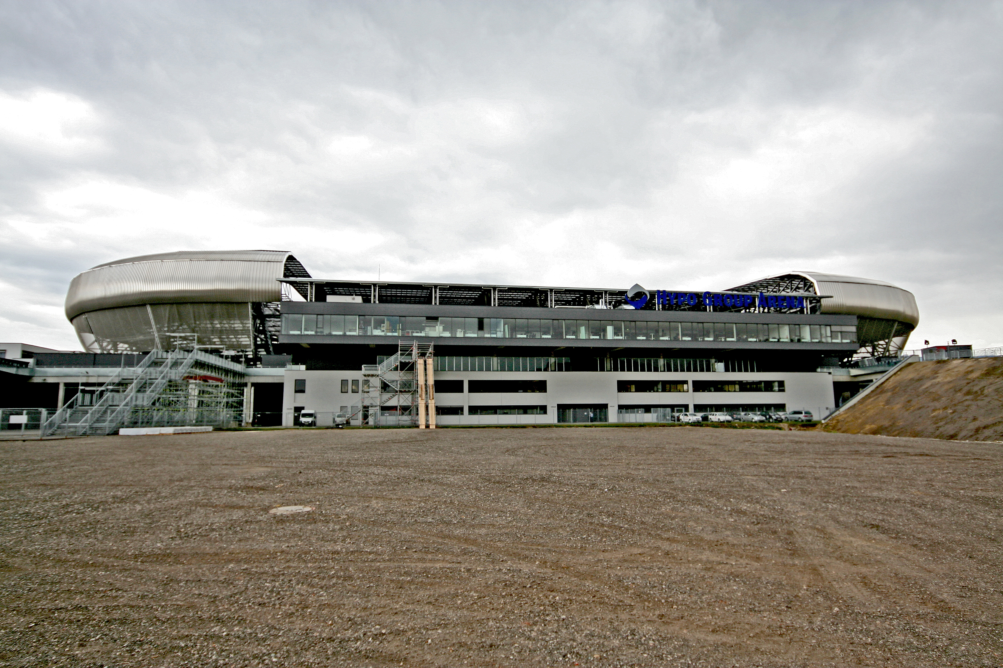 Western side of Wörtherseestadion - temporarily known as Hypo Group Arena - Klagenfurt, Austria.